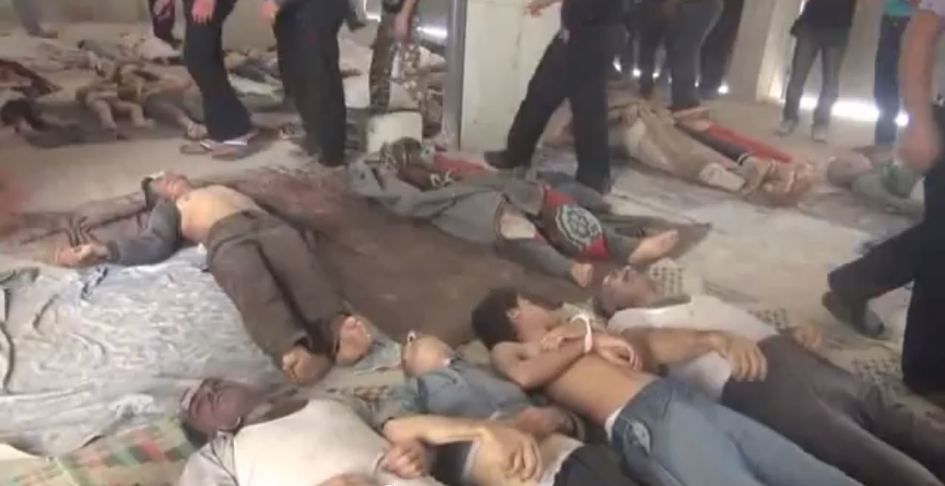 People and children in Ghouta massacre, victims of chemical attack.